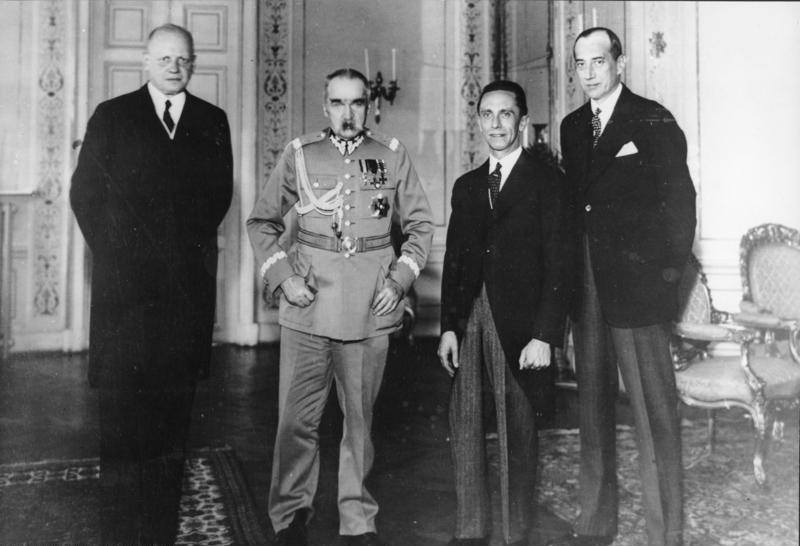 Joseph Goebbels and the German Ambassador von Moltke visiting Piłsudski on June 15, 1934. Polish Foreign minister Józef Beck at the right.